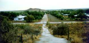 View of Orania in 2000.